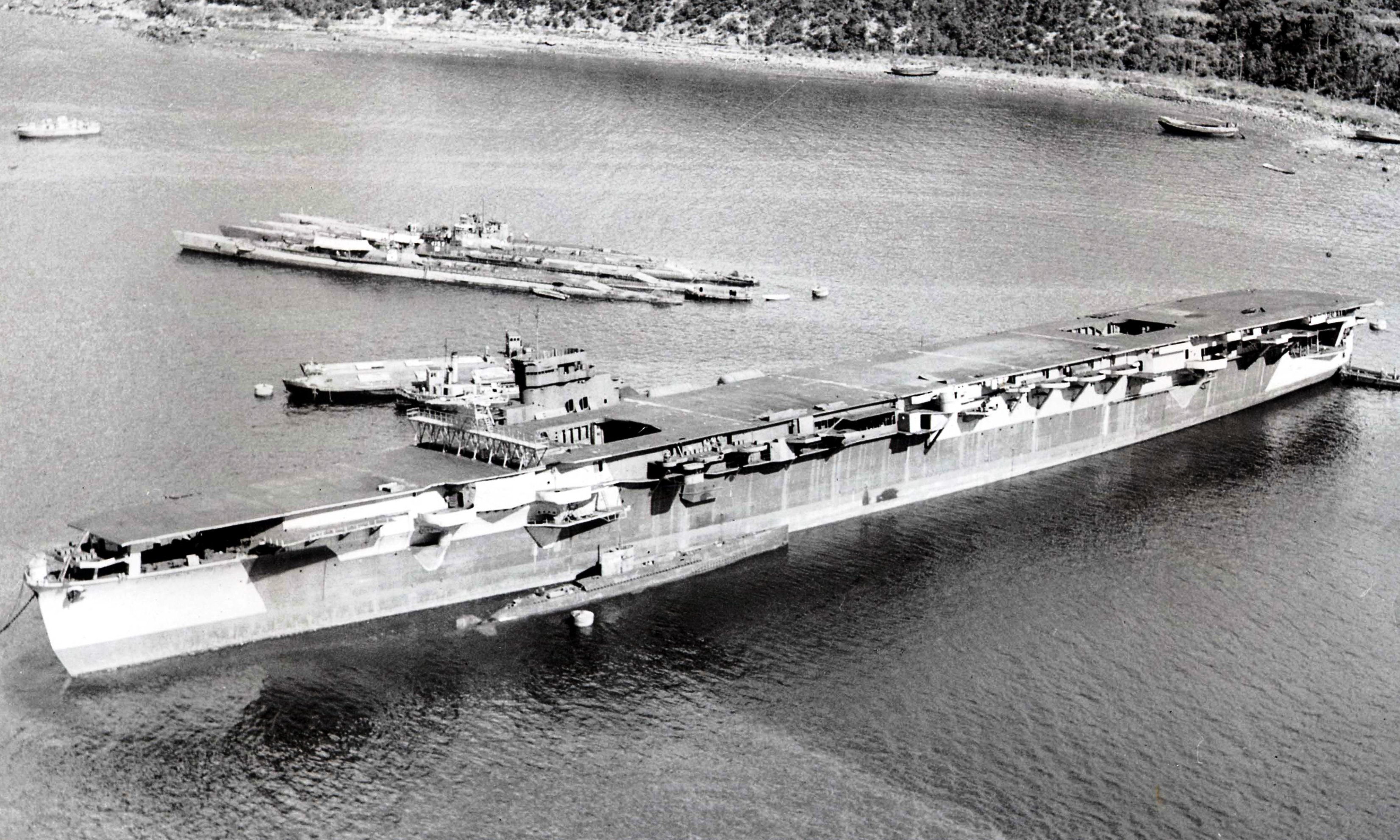 日本海軍航空母艦雲龍型「笠置」 Kasagi, Imperial Japanese Navy's unfinished aircraft carrier. November, 1945. Sasebo, Japan